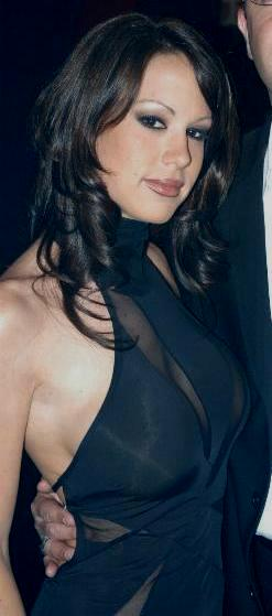 McKenzie Lee at McKenzie Lee and Lexxi Tyler birthday party, May 25 2006